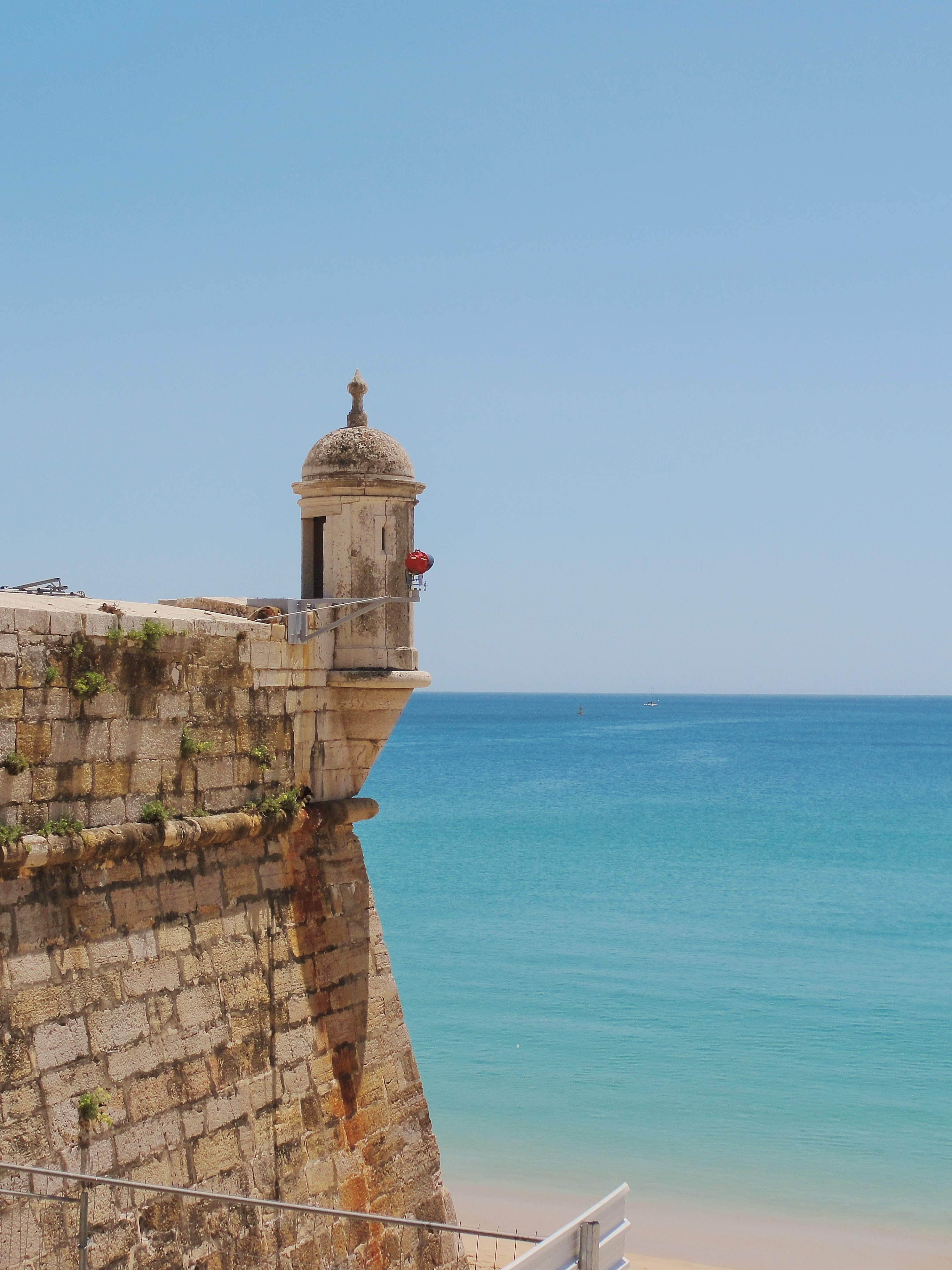 Round Bartizan, Fortaleza de Santiago, Gold Beach coastline (Praia do Ouro) at Sesimbra. Sesimbra is a traditional Portuguese fishing village bay, part of the Blue Coast region.